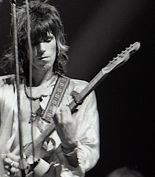 Keith Richards of the Rolling Stones in the early days